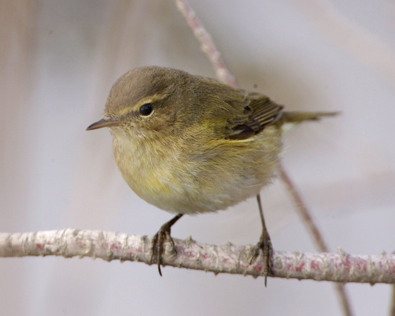 It is probably a common bird for most but coming from the tropics this is a lifer for me. Seen wintering in Egypt. Common Chiffchaff Phylloscopus collybita ssp Phylloscopus collybita collybita El Fayoum, Egypt 5th. January 2008 Distribution: Arabic: الذّعَره الشائعة, دخلة الشرق, نقشارة _Q0S5871